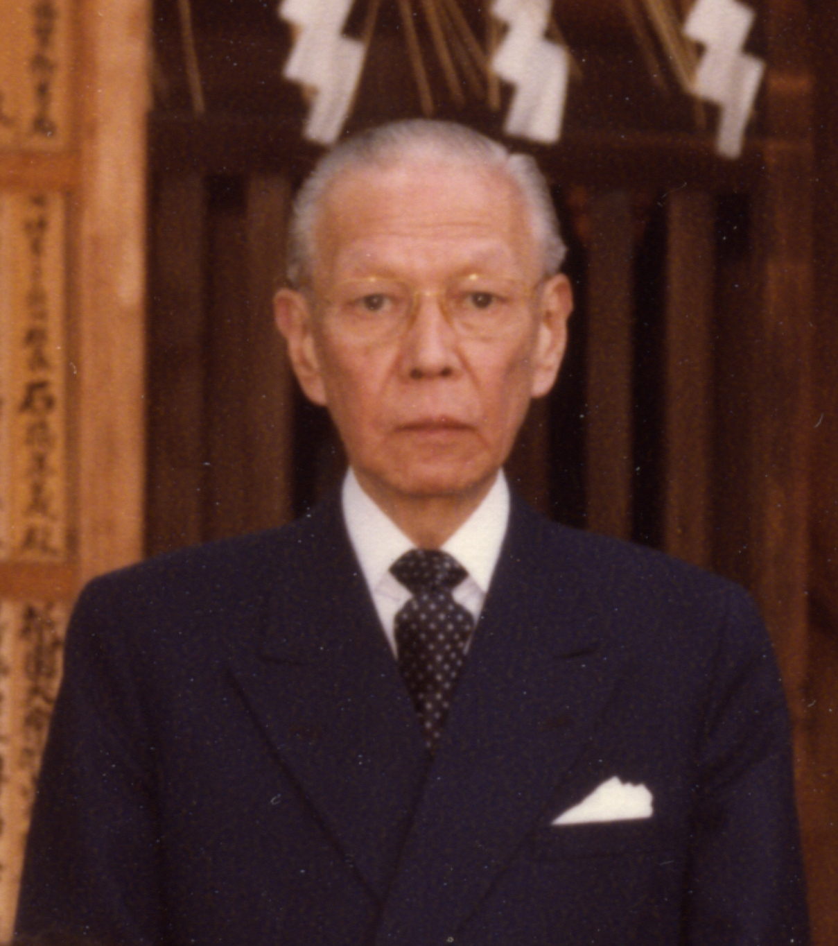 The Japanese scholar Prof. Dr. Takahashi Yoshitaka (1913-1995). Photo taken at the Kushida Shrine (Fukuoka) on 17 April 1982